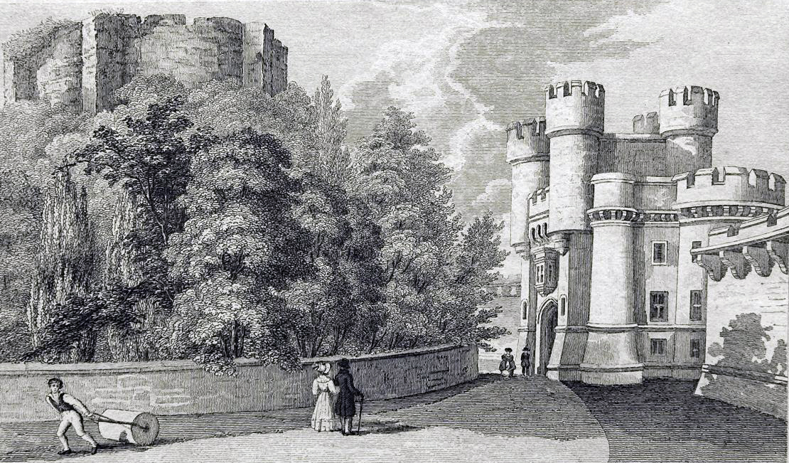 York Castle in 1830; object number YORAG : R2957 released by York Museums Trust under Public Domain license (